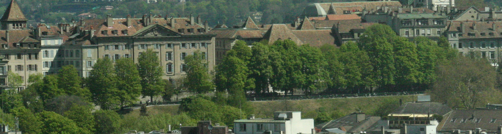 Promenade de la Treille, in the old city of Geneva (Switzerland), as seen from the television tower. Cropped from File:Geneve-Vieille-Ville.jpg